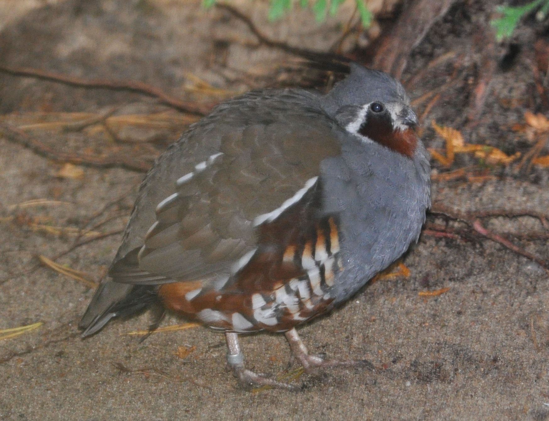 Mountain Quail (Oreortyx pictus) in the Walsrode Bird Park, Germany.